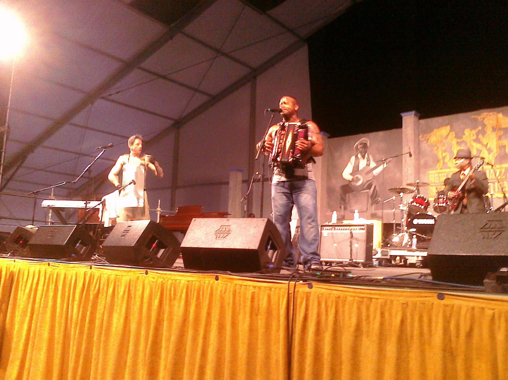 Dwayne Dopsie & the Zydeco Hellraisers at New Orleans Jazz Fest